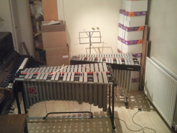 Two premier vibraphones